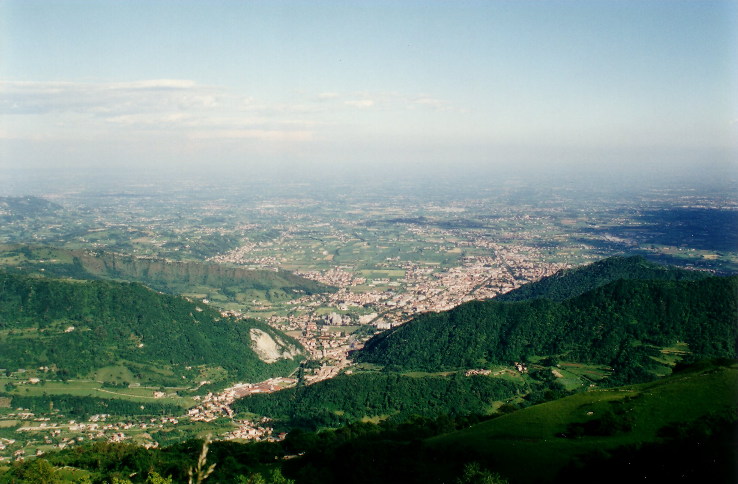 The Town of Vittorio Veneto in the Treviso province of Veneto, Italy, seen from the Col Visentin